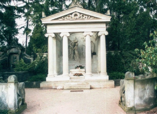 Radebeul: Familiengrab für die Familie von Karl May / Cemetery-Monument of Karl May's Family